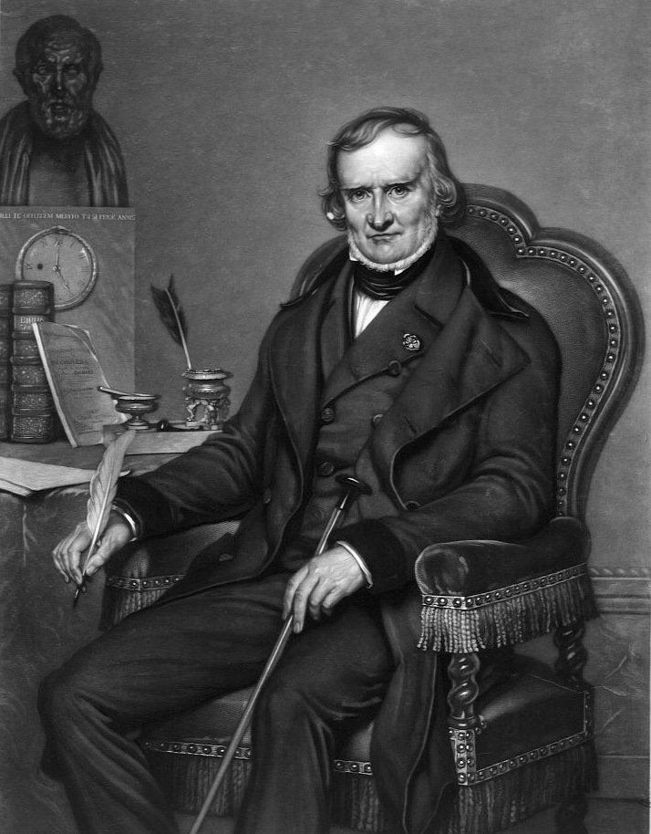 Joseph-Claude-Anthelme Récamier (November 6, 1774 – June 28, 1852), engraving